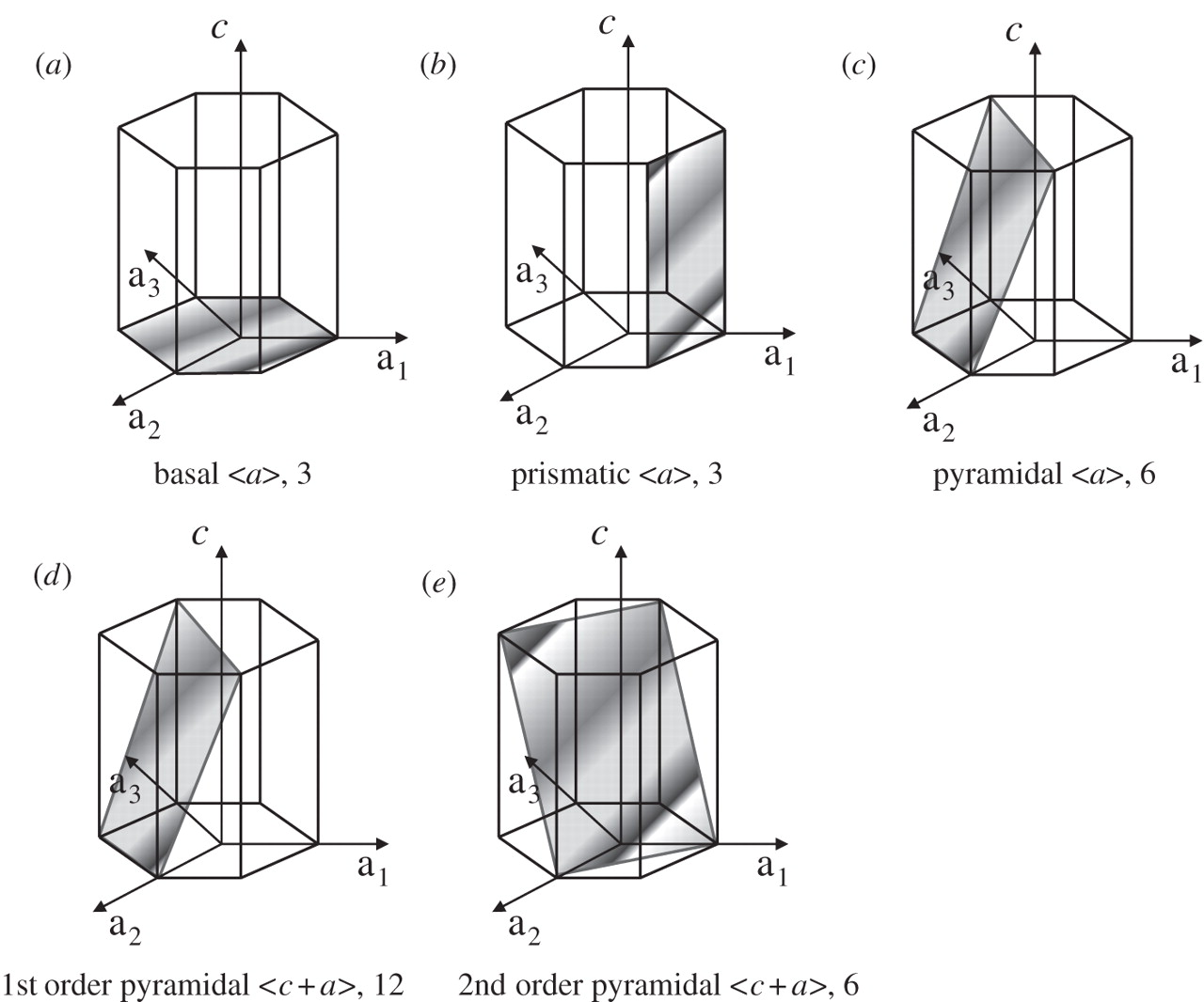 HCP نام گذاری صفحات در